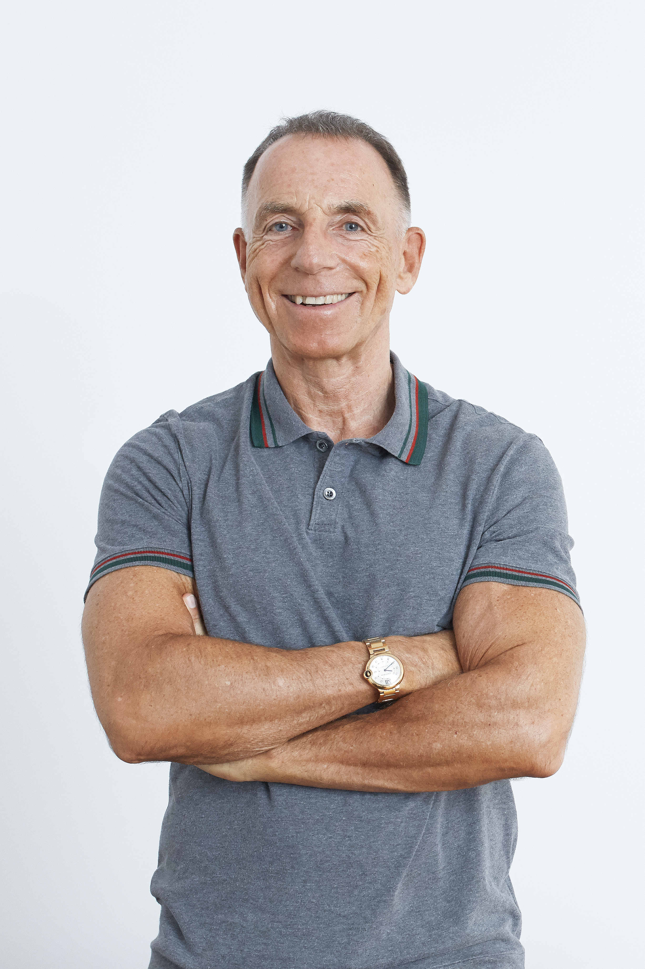 Dr. Dr. Rainer Zitelmann.